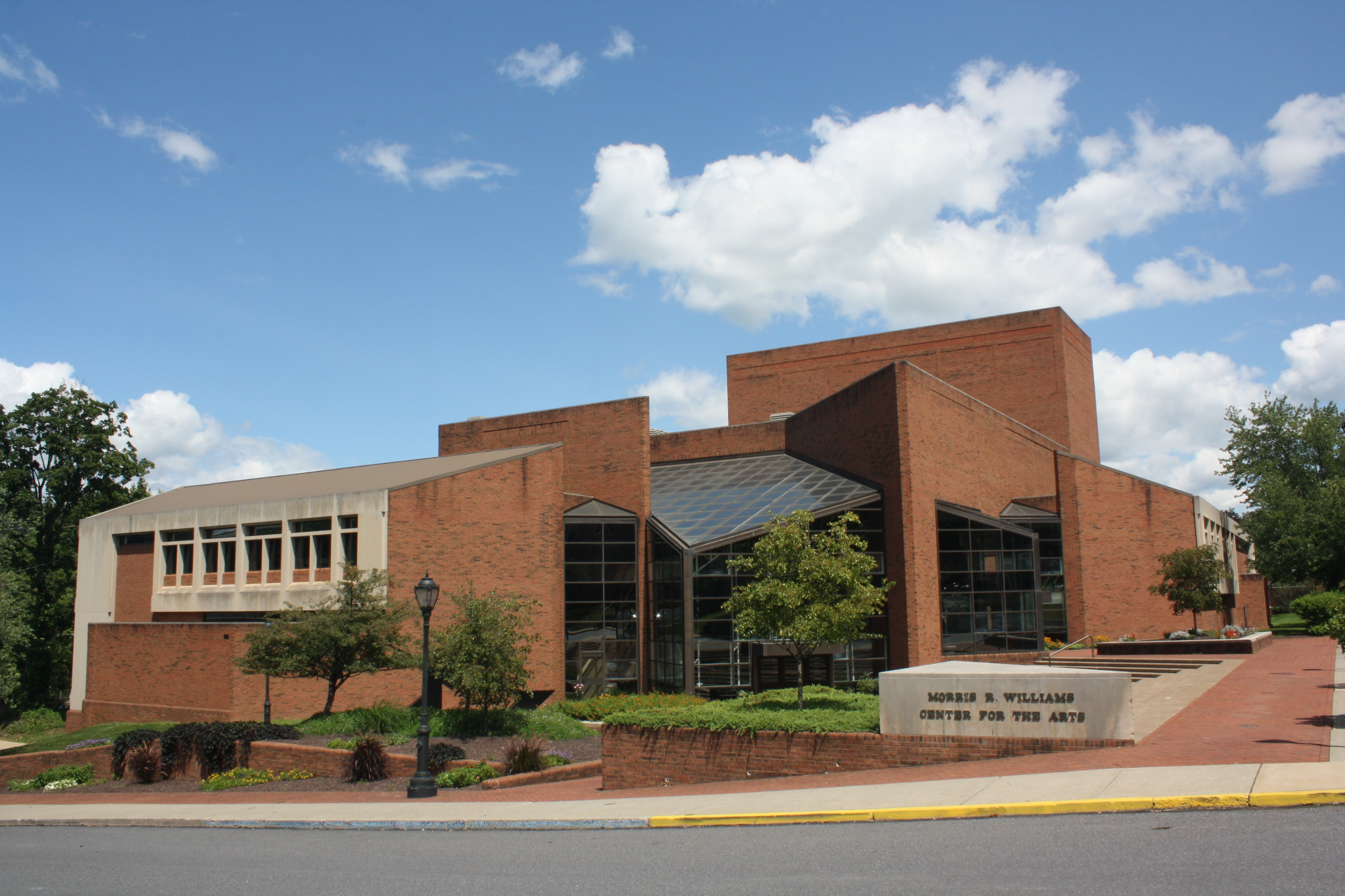 Lafayette College, Morris R. Williams Center for the Art, College Hill, Easton, PA.